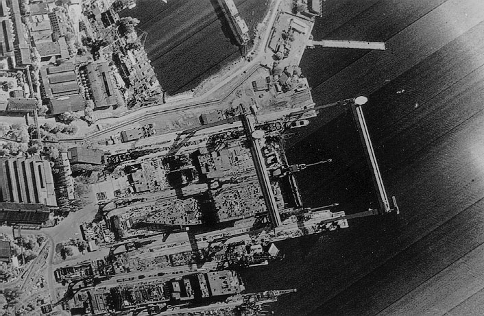 One of two KH-11 photos taken in 1984. It was leaked to Jane's Defence Weekly in 1985. The image shows the layout of the Nikolaiev 444 shipyard in the Black Sea.